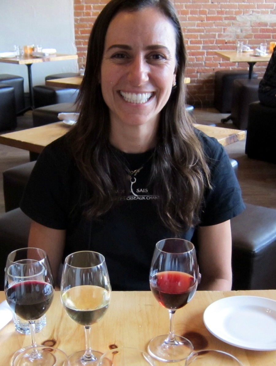 Steph Davis seated at a table with three glasses of wine.